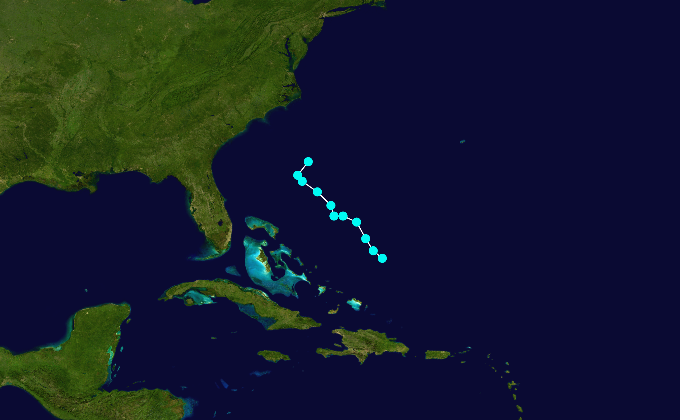 Track map of Tropical Storm Danny of the 2009 Atlantic hurricane season. The points show the location of the storm at 6-hour intervals. The colour represents the storm's maximum sustained wind speeds as classified in the Saffir–Simpson scale (see below), and the shape of the data points represent the nature of the storm, according to the legend below. Saffir–Simpson scale Tropical depression≤38 mph≤62 km/h Category 3111–129 mph178–208 km/h Tropical storm39–73 mph63–118 km/h Category 4130–156 mph209–251 km/h Category 174–95 mph119–153 km/h Category 5≥157 mph≥252 km/h Category 296–110 mph154–177 km/h Unknown Storm type Tropical cyclone Subtropical cyclone Extratropical cyclone / Remnant low / Tropical disturbance / Monsoon depression